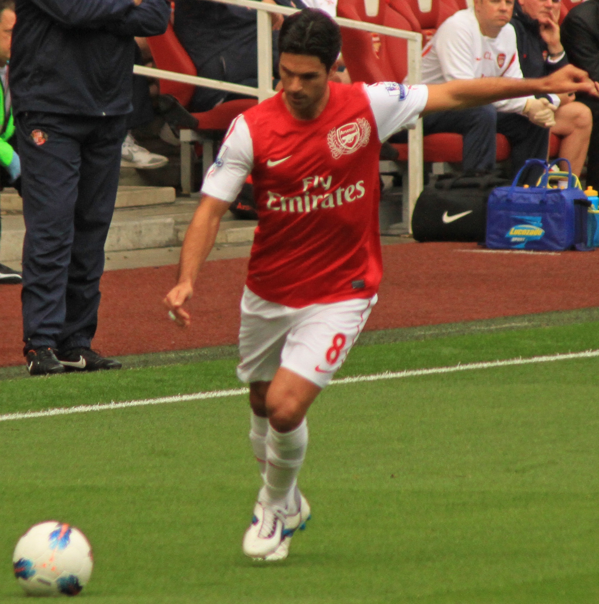 Mikel Arteta